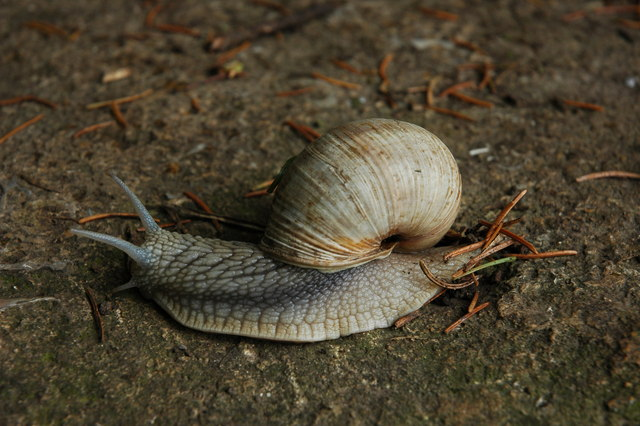 Burgundy Snail (Helix pomatia) A Burgundy snail in Chedworth Woods. It's appropriate to find one of these edible snails near Chedworth Roman Villa as it is thought this species was introduced by the Romans.